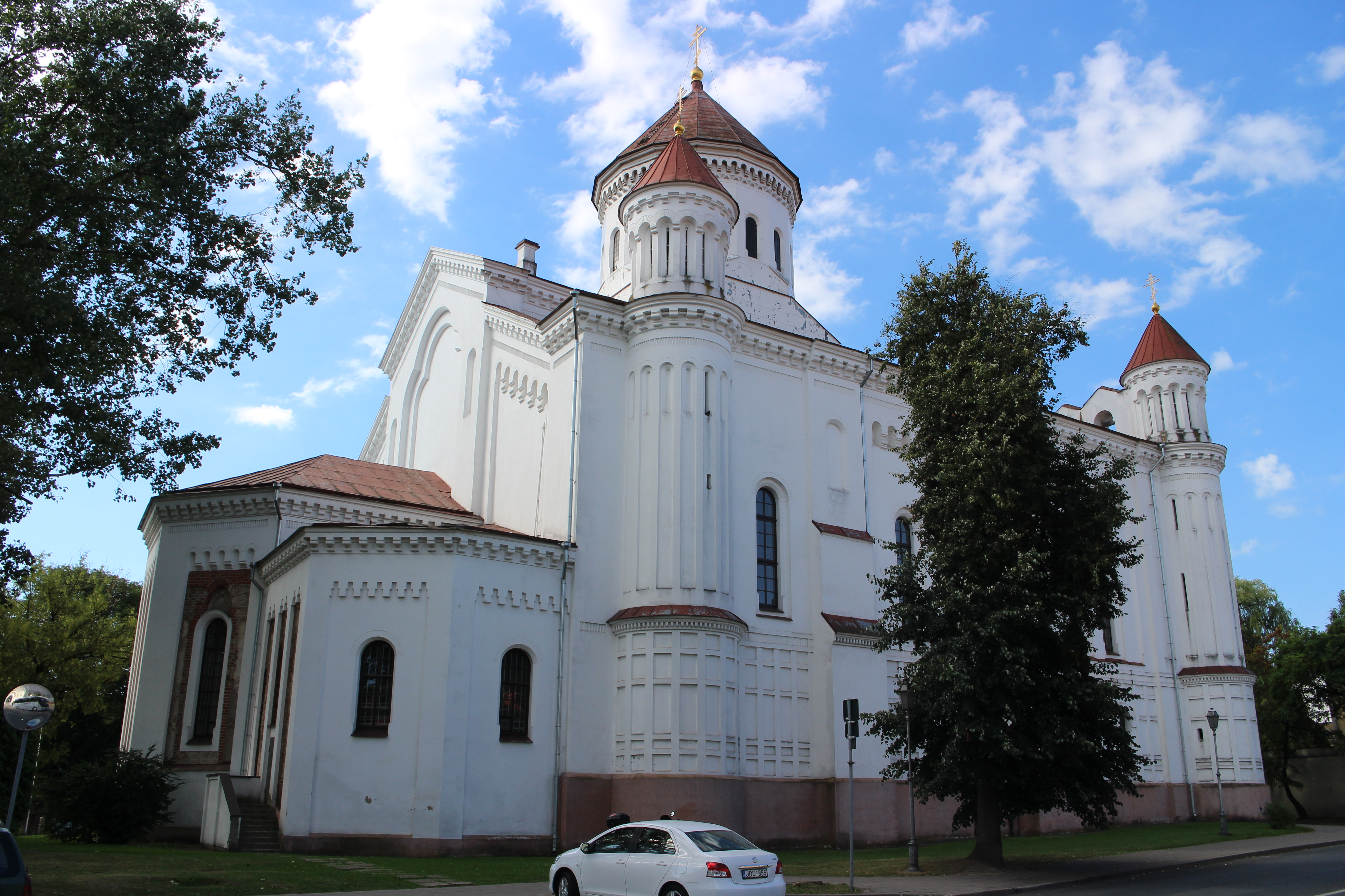 Orthodox Cathedral of the Dormition of the Theotokos in Vilnius